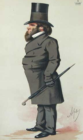 Caricature of Richard Temple-Grenville, 3rd Duke of Buckingham and Chandos. Caption read "a safe Duke".